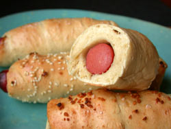 Image of a bagel dog from original image URL: (CC 2.5 attribution license)